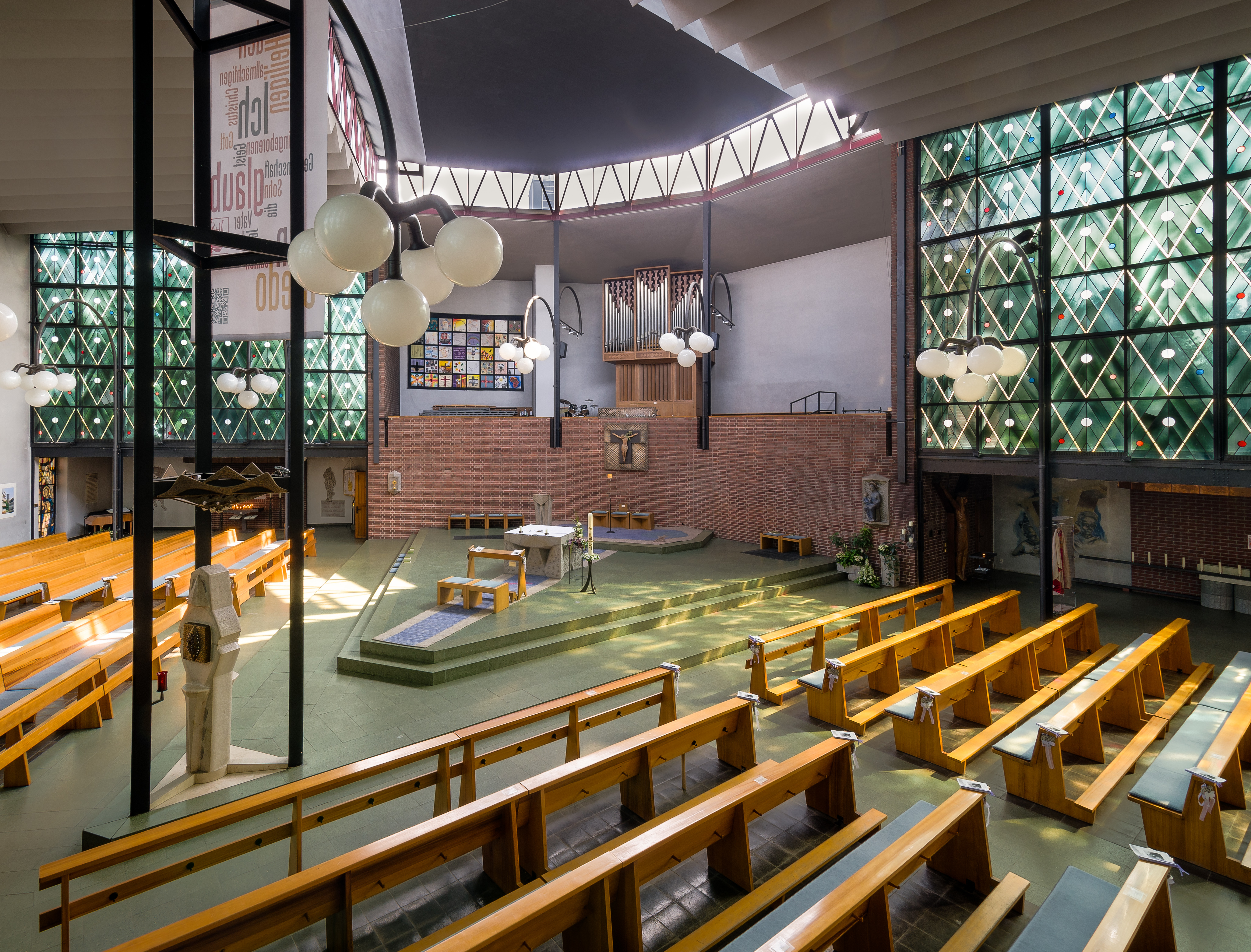 Interior of St. Barbara Church in Mülheim an der Ruhr